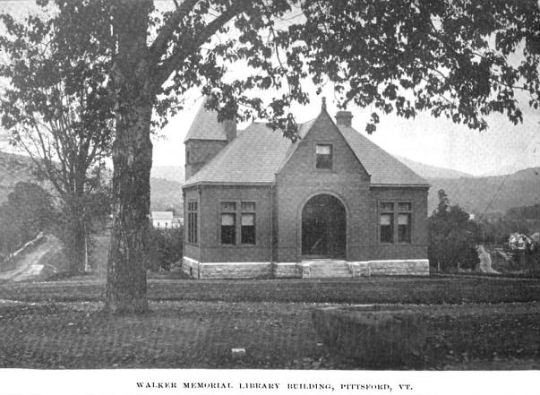 Library in Vermont